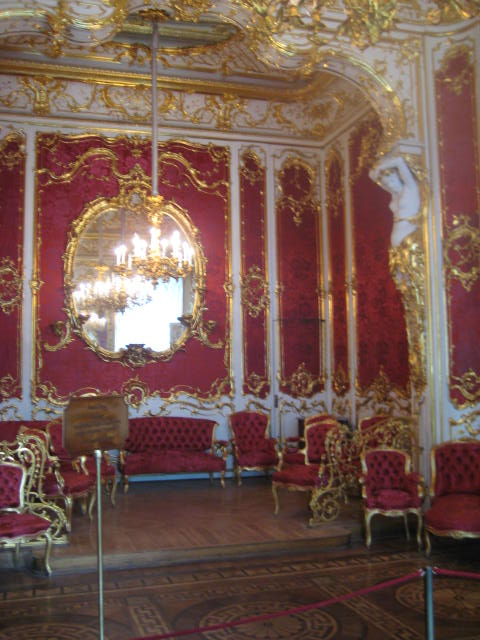 A Winter Palace interior in St Petersburg. The Winter Palace now houses the Hermitage Museum. The Palace was originally built and decorated in 1730 and was rebuilt after a major fire while under siege by Napoleon's troops.